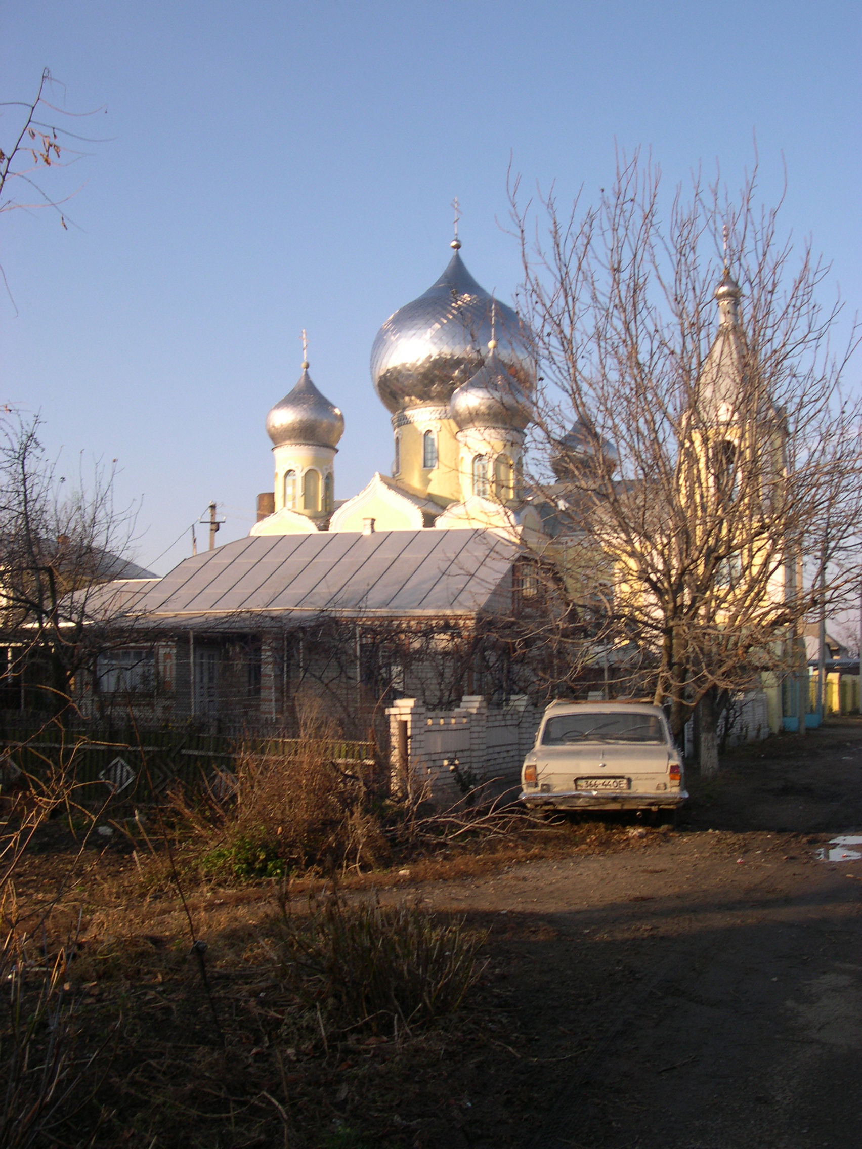 Church in Kodyma town, Ukraine